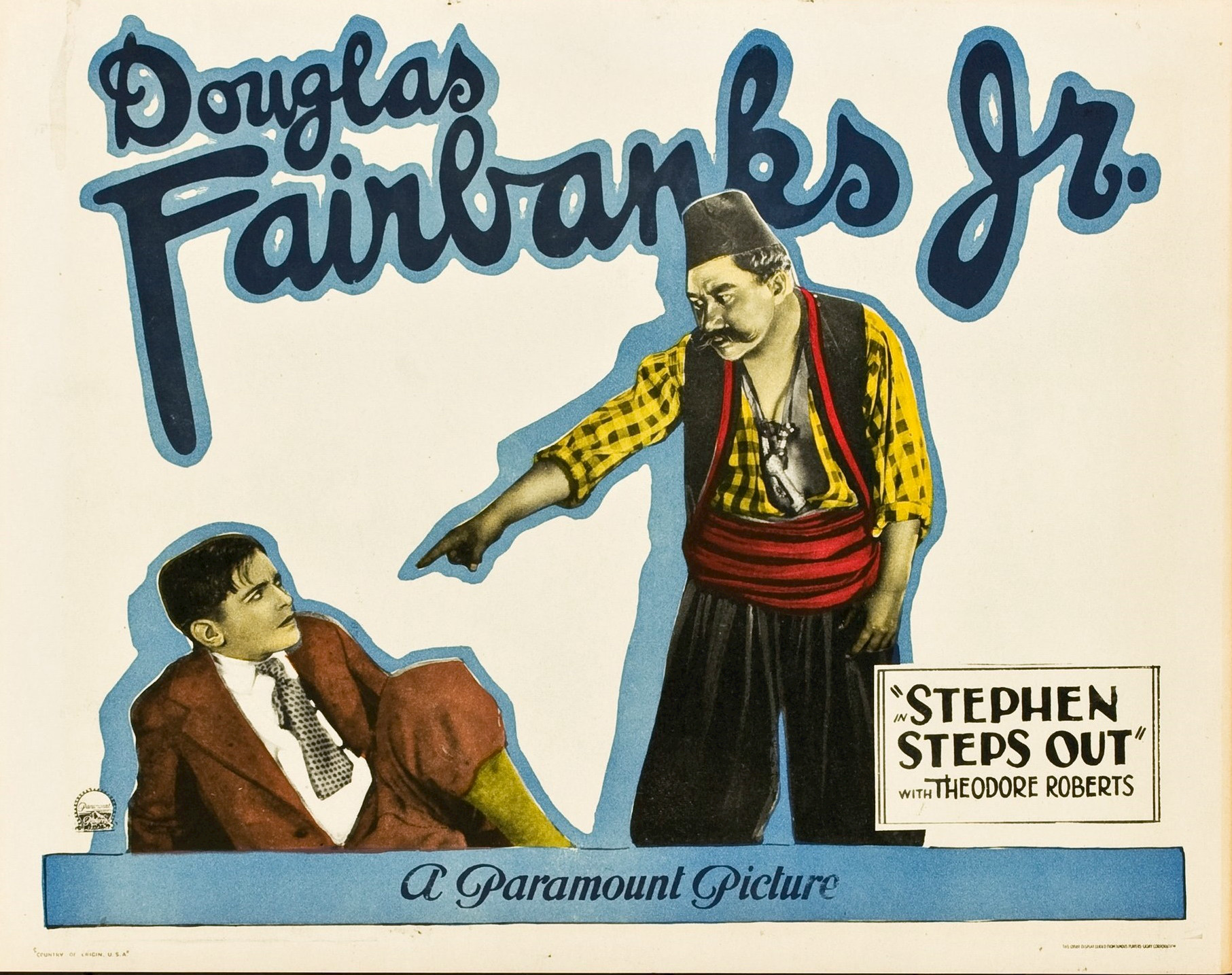 Lobby card for the American comedy film Stephen Steps Out (1923). There are no copyright marks on the card. At bottom left is Country of origin USA. At bottom right is This lobby display leased from Famous Players Lasky Corporation.